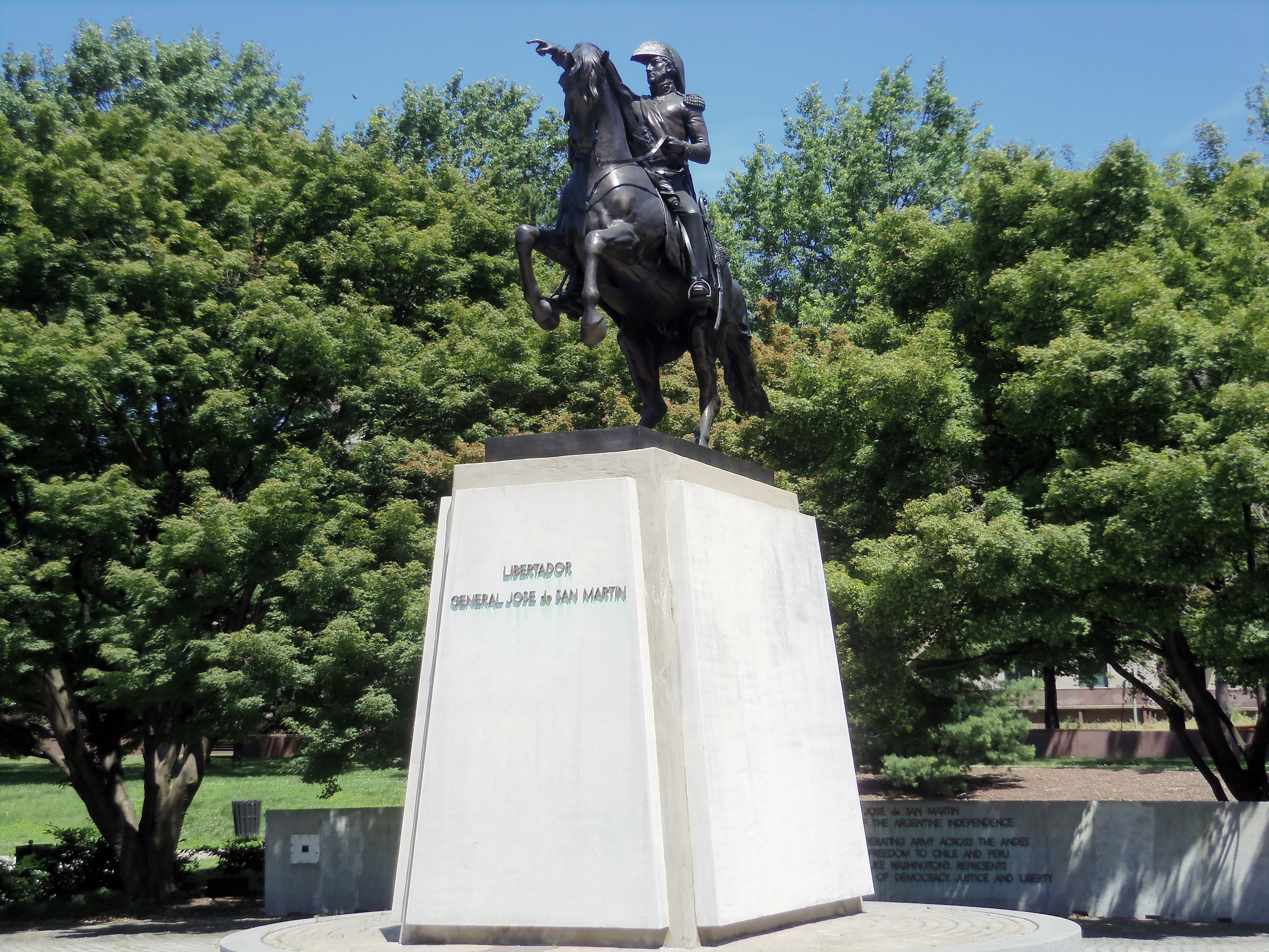 The statue of General Jose de San Martin is among the statues of the Liberators of western-hemisphere countries from colonial rule found along Virginia Avenue, N.W., in Washington, D.C.